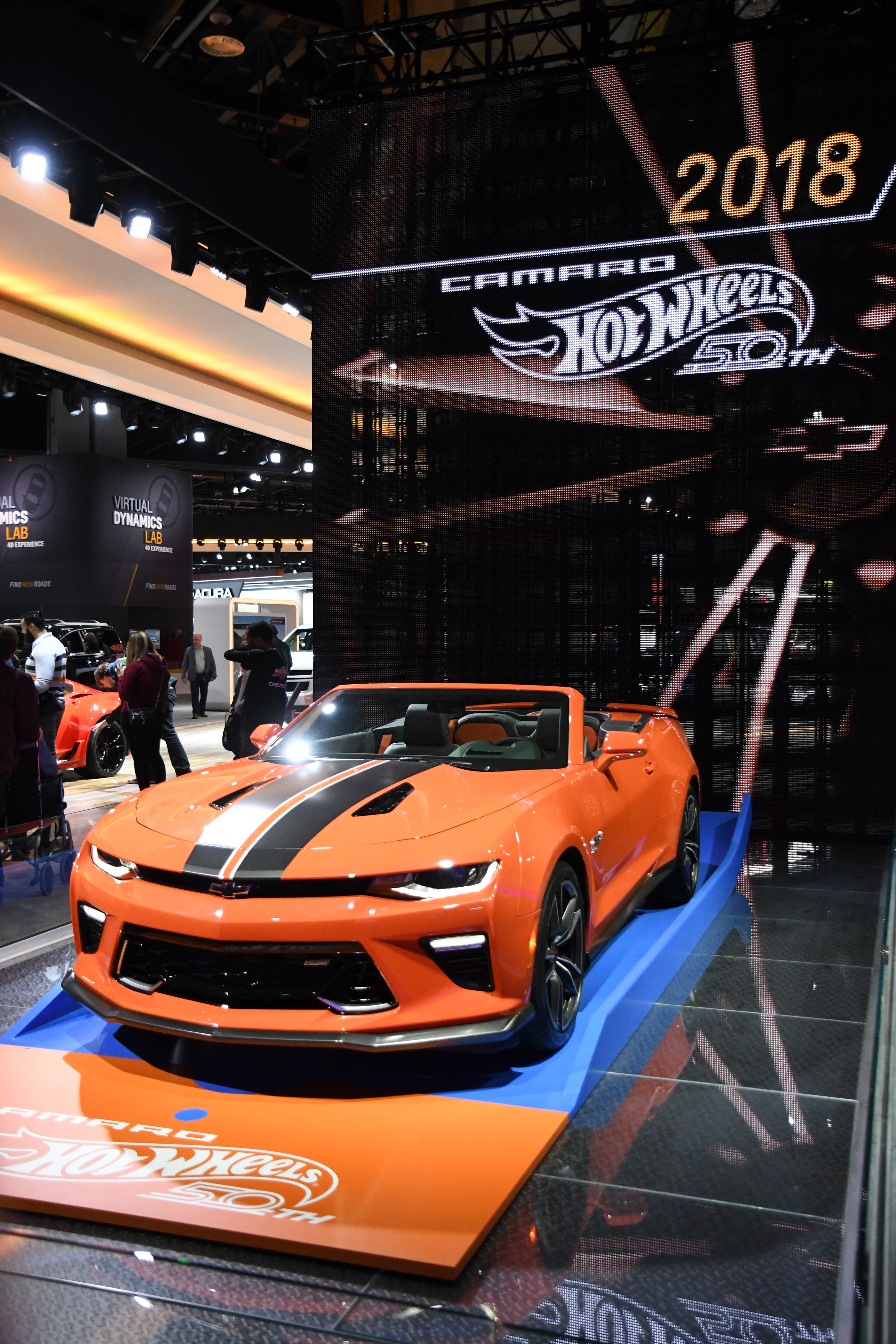 A scene from public display days of the 2018 North American International Auto Show held in Cobo Center in downtown Detroit, Michigan. January, 2018